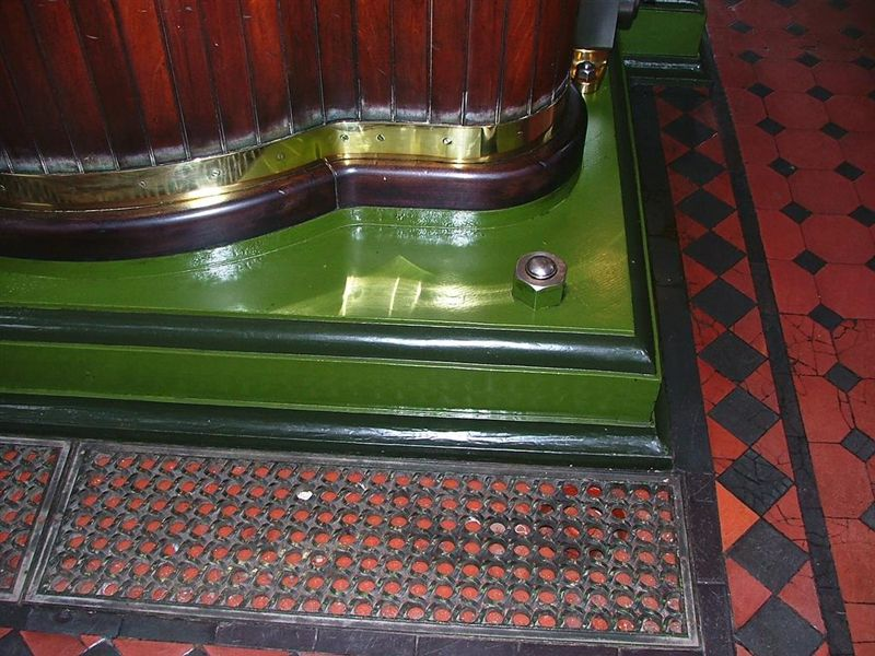 Baseplate. Just look at that beautiful flooring . Only seen by enginemen! British Engineerium, Brighton.